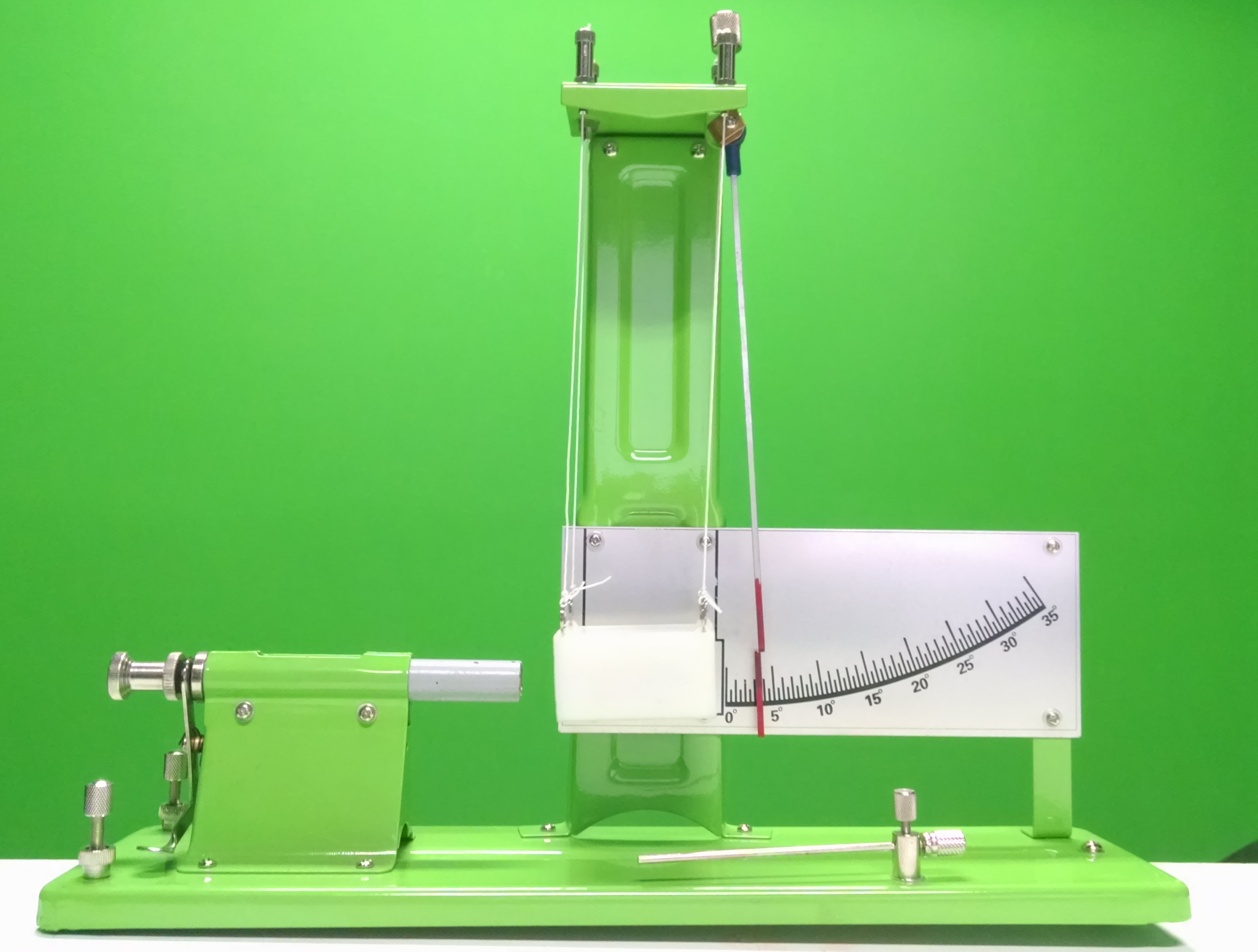 A green ballistic pendulum. Photo attribution must go to Steven H. Keys and